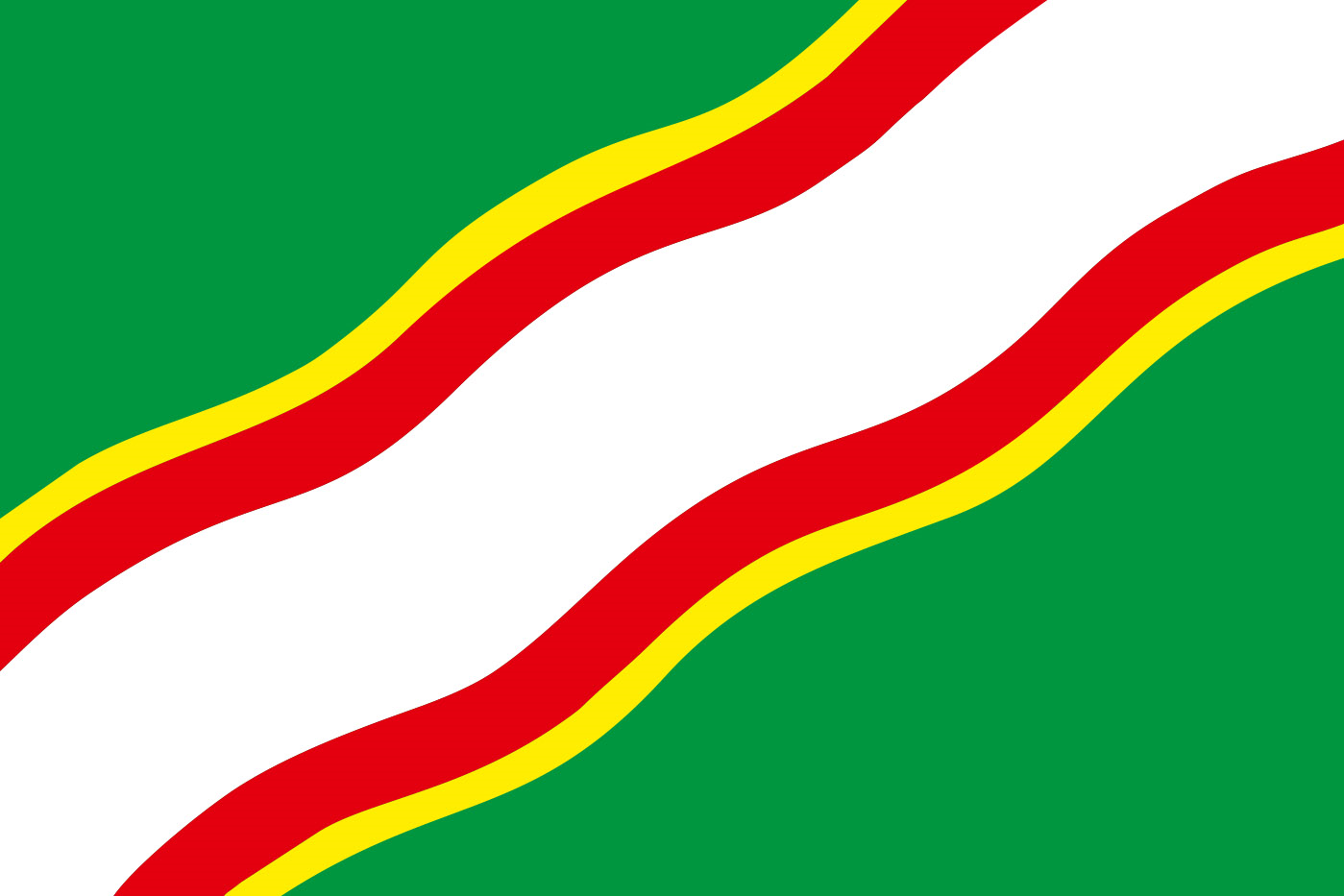 Flag of Krasnokamsk, Perm Territory, Russia